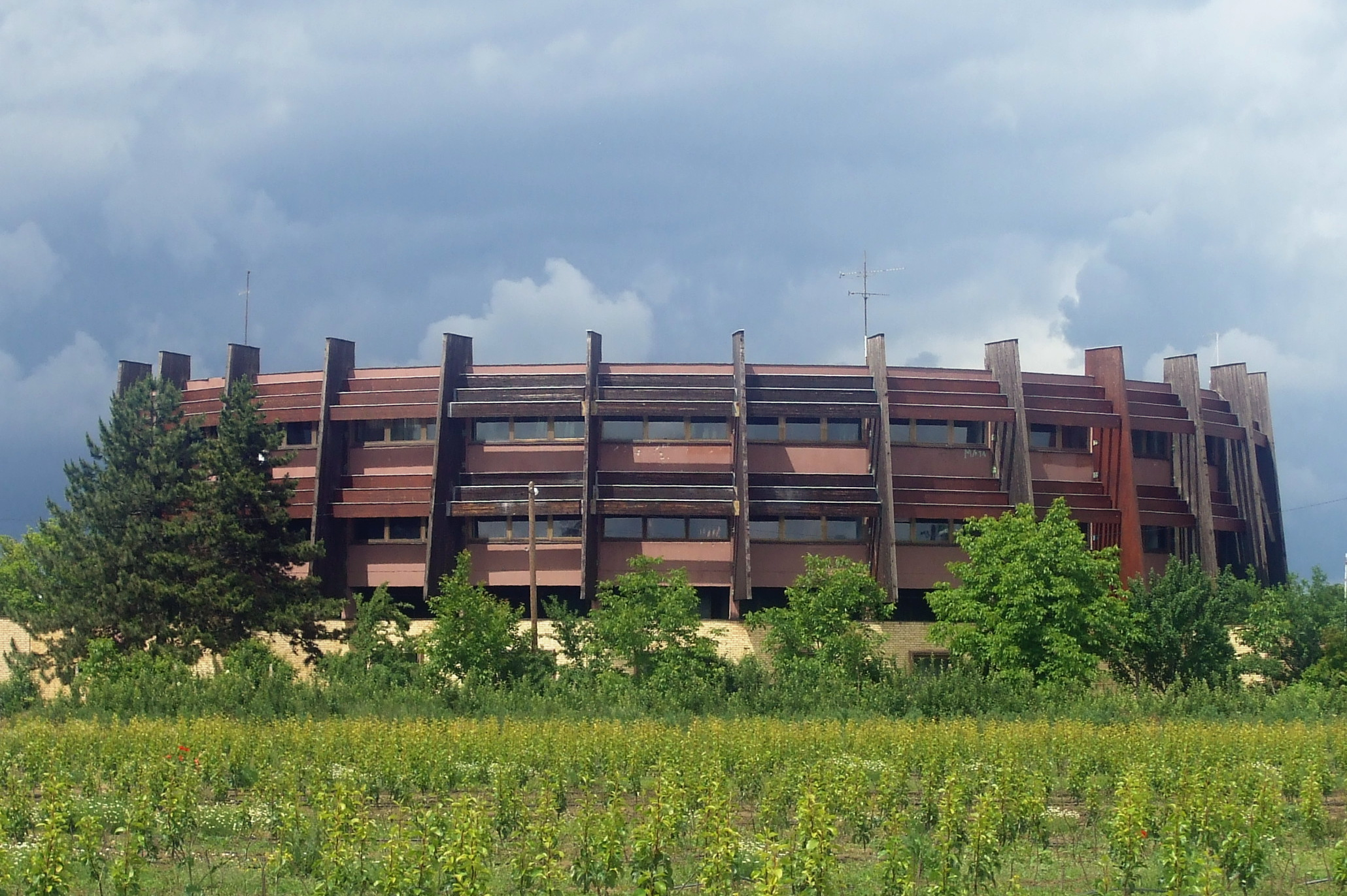 Faculty of Civil Engineering Osijek building in Drinska street in Osijek, Croatia.